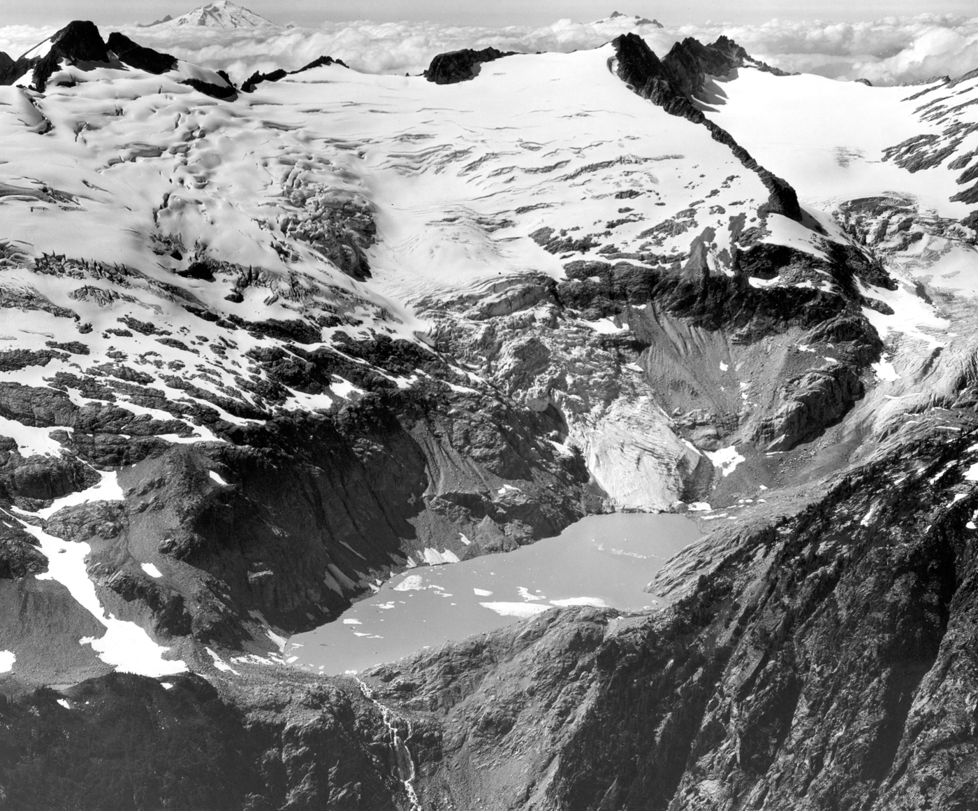 North Cascades National Park, Washington. Klawatti (center) and North Klawatti (right) Glaciers, north of Eldorado Peak. These glaciers have exhibited striking and diverse changes in recent years although they are closely adjacent. In 1947, stagnant ice from both glaciers covered the area of Klawatti Lake. At that time Klawatti Glacier ended on the steep cliff which it now descends in a spectacular icefall. Since 1947, the ice in the basin has melted. The lake, now 1 kilometer in length, has formed, and the Klawatti Glacier has advanced down the cliff. Meanwhile the lower part of North Klawatti Glacier has continued to thin. August 2, 1969. Plate 3-B, U.S. Geological Survey Professional paper 705-A. 1971. Image file